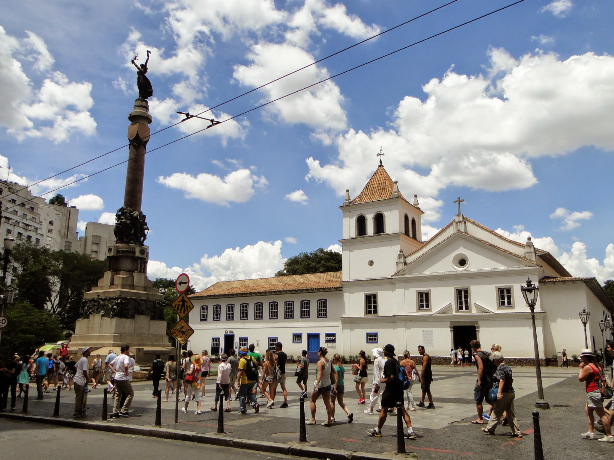 Padre Manuel da Nobrega square